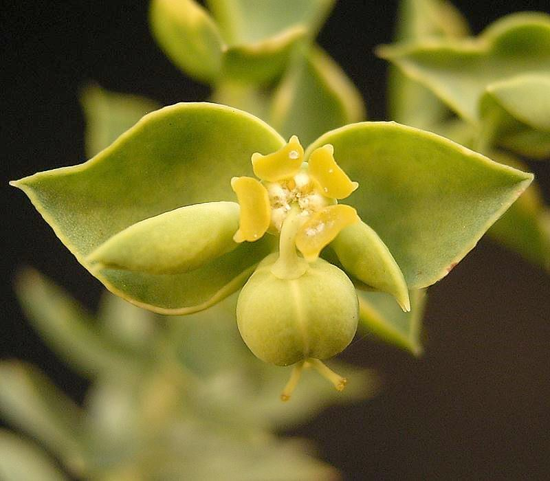 Euphorbia pithyusa